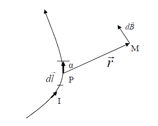 Biot–Savart law